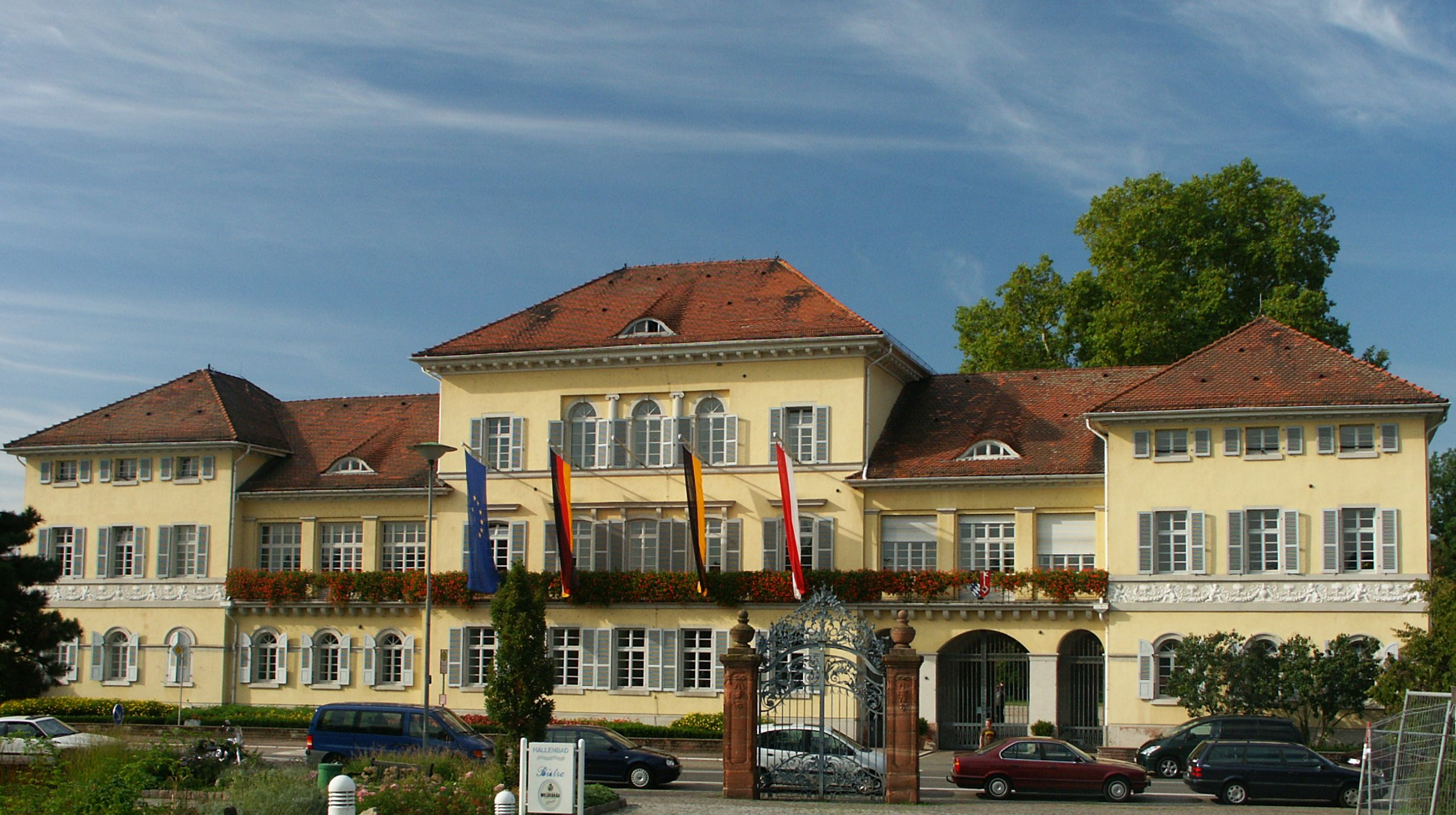 neo-classicism castle in Neckarhausen